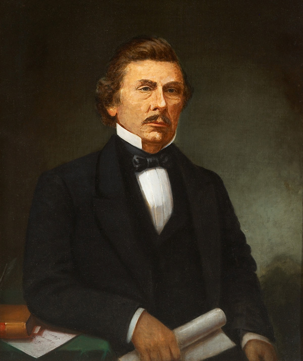 from Mississippi Department of Archives and History